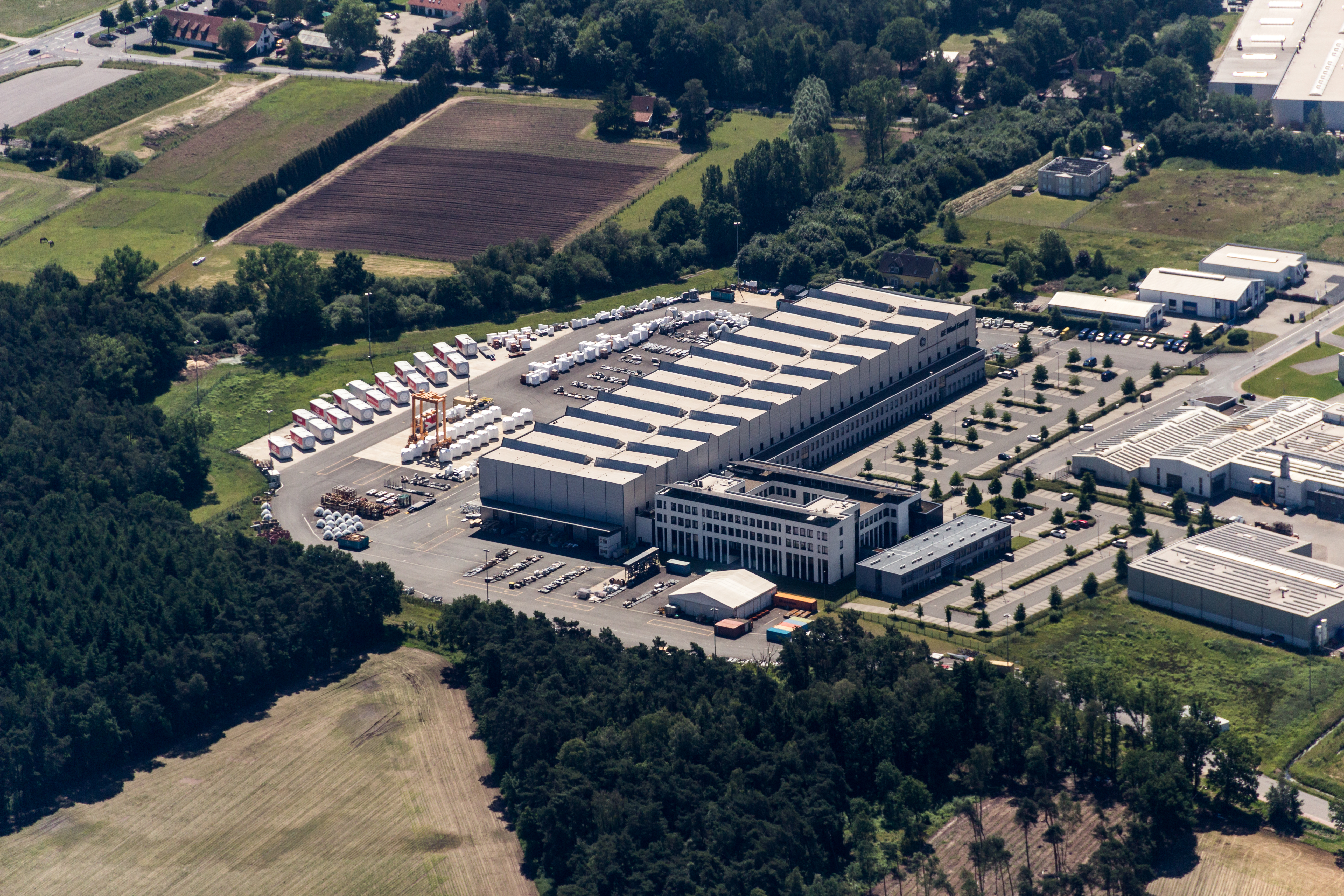 Company “GE Wind Energy”, Rheine, North Rhine-Westphalia, Germany